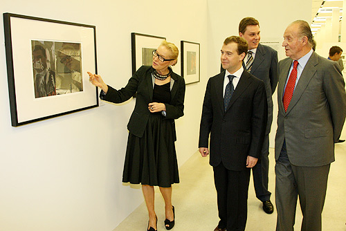 MANEZH, MOSCOW. At the photo exhibition “Spain as seen by Russian photographers”. With King of Spain Juan Carlos I and Director of the Moscow House of Photography Olga Sviblova.